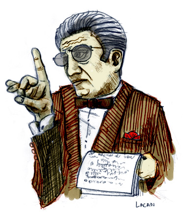 Drawing. Jacques Lacan, french psychoanalyst.